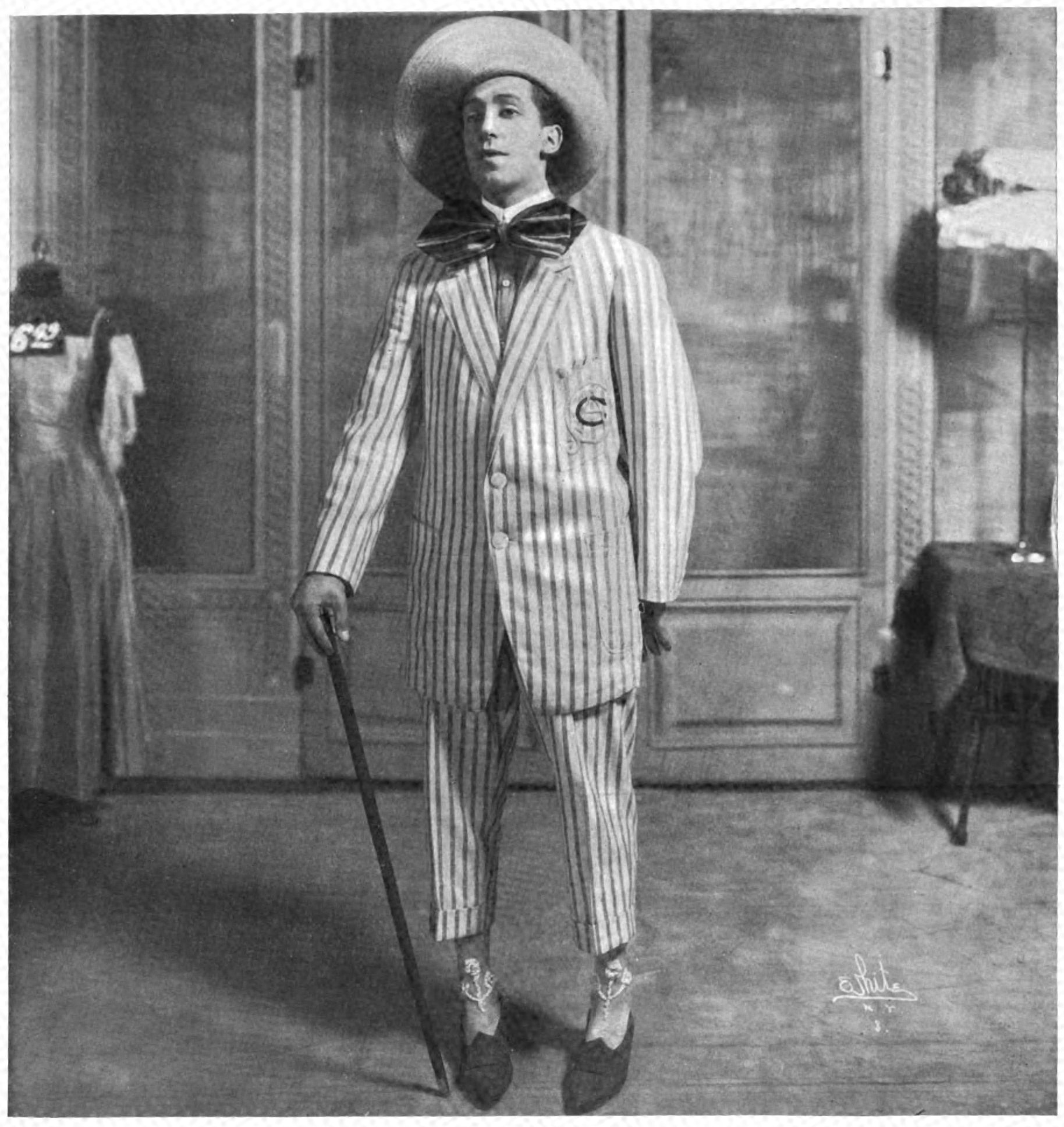 Ed Wynn (November 9, 1886 – June 19, 1966) in C.L. Waterbury's Mr. Busybody in 1908.